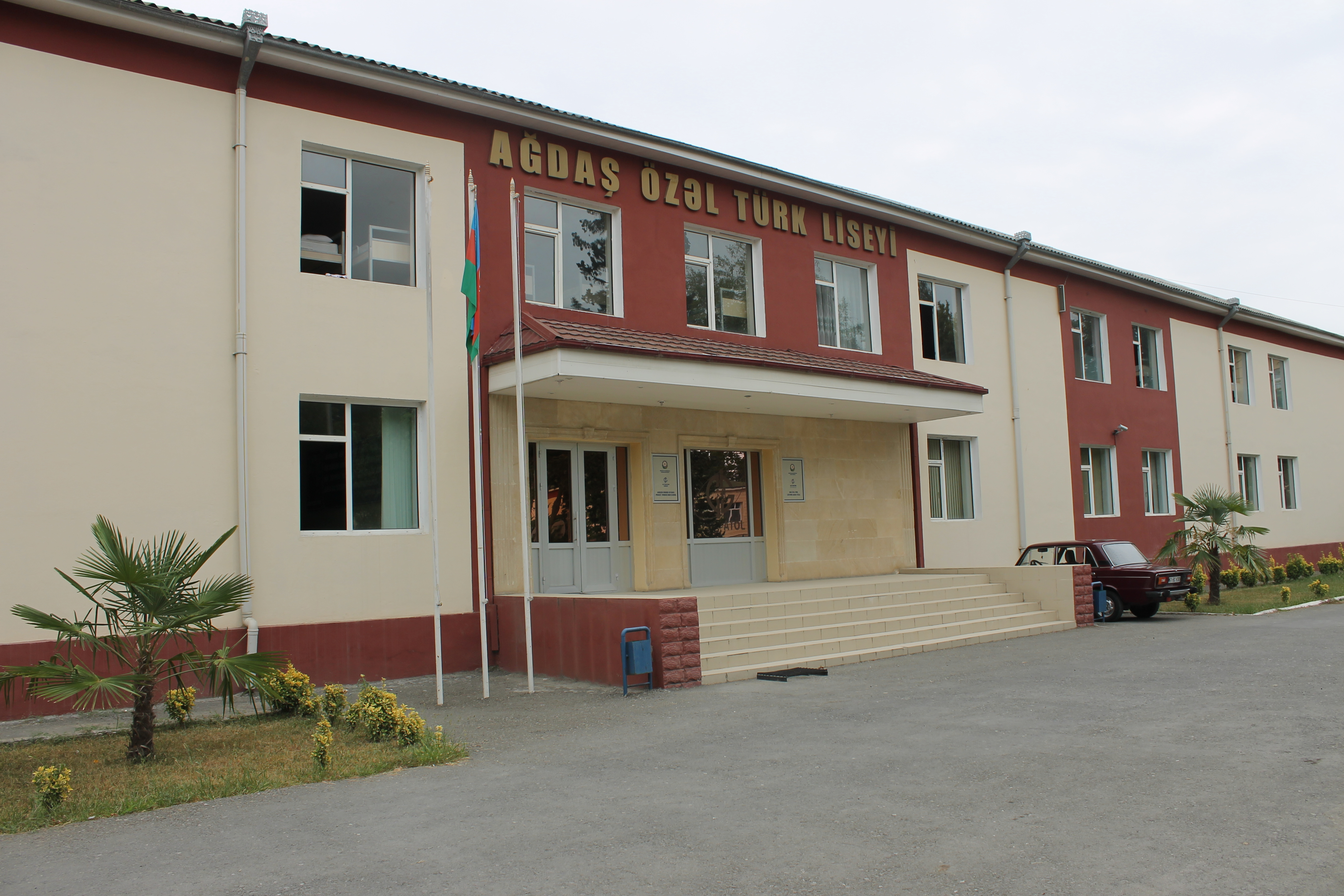 Agdash Private Turkish High School